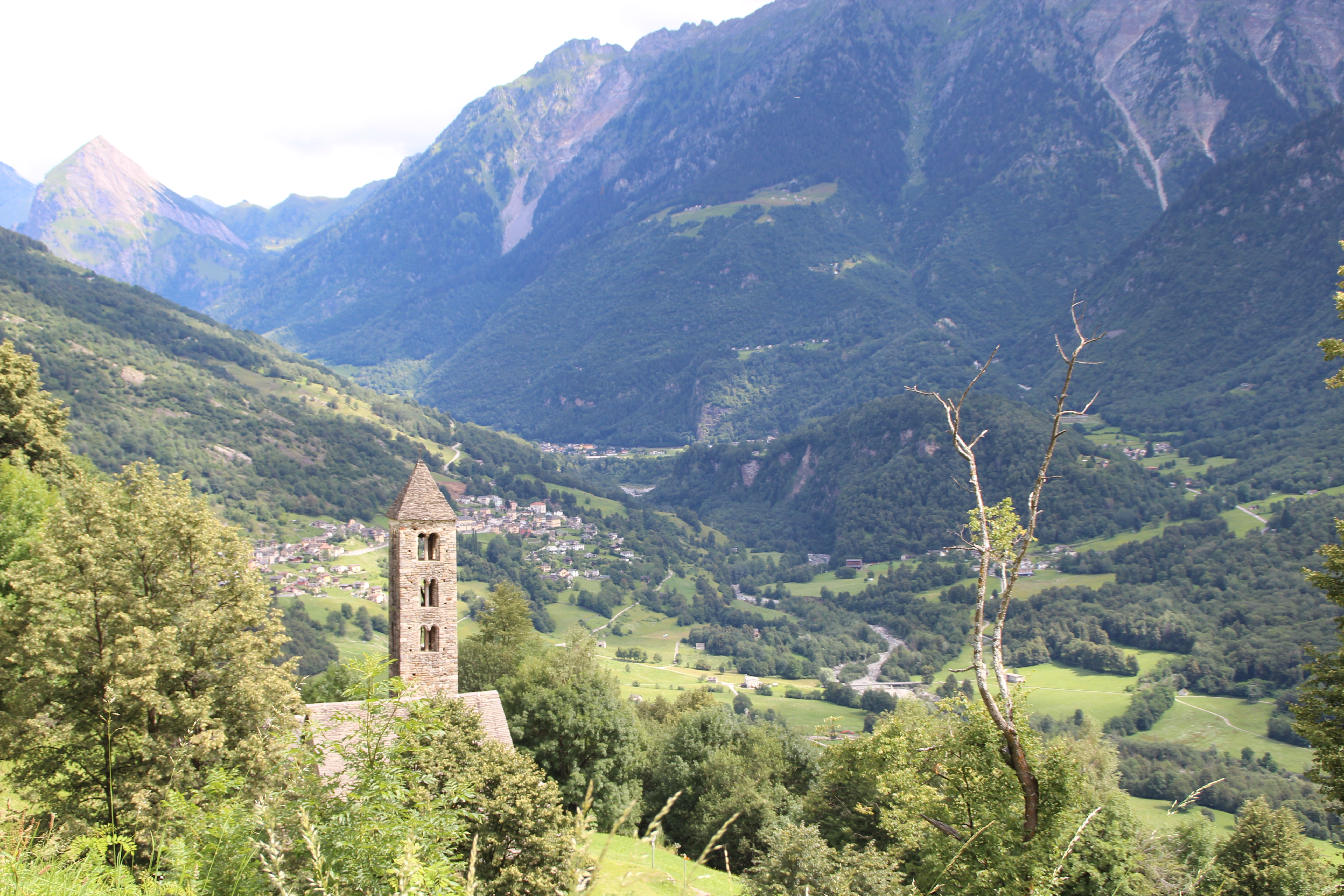 San Carlo, Blick ins Bleniotal